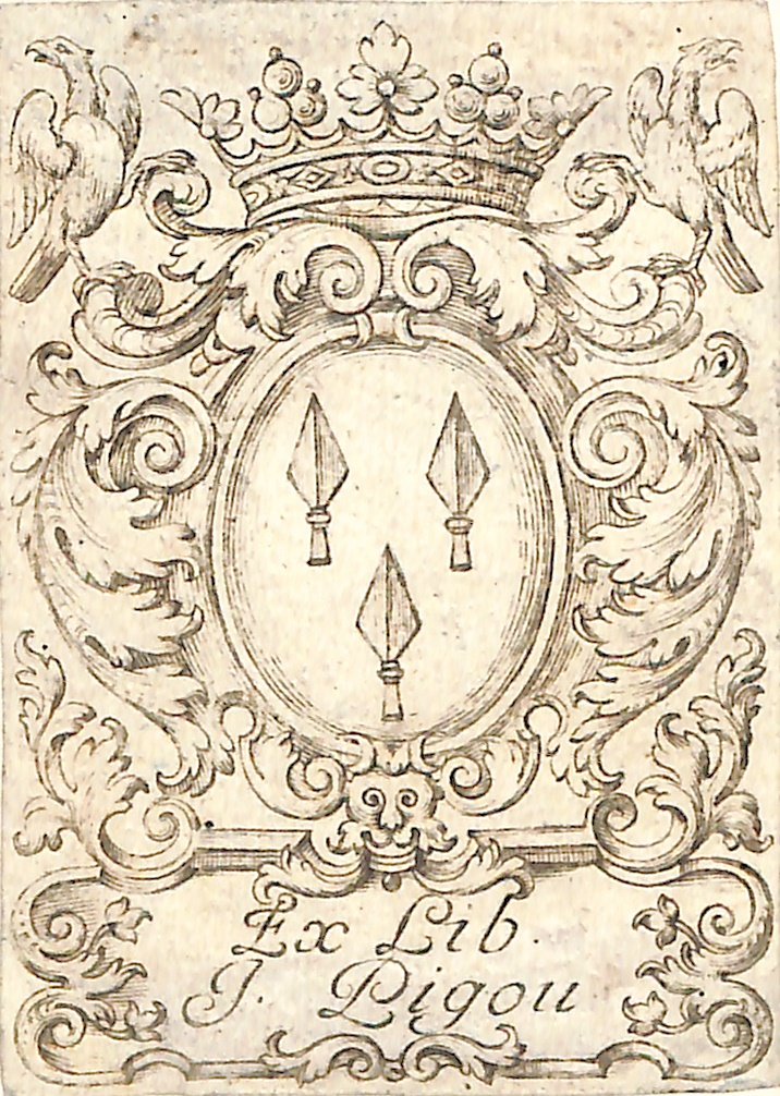 Ex Libris of the Pigou family before 1789 with the arms of the family